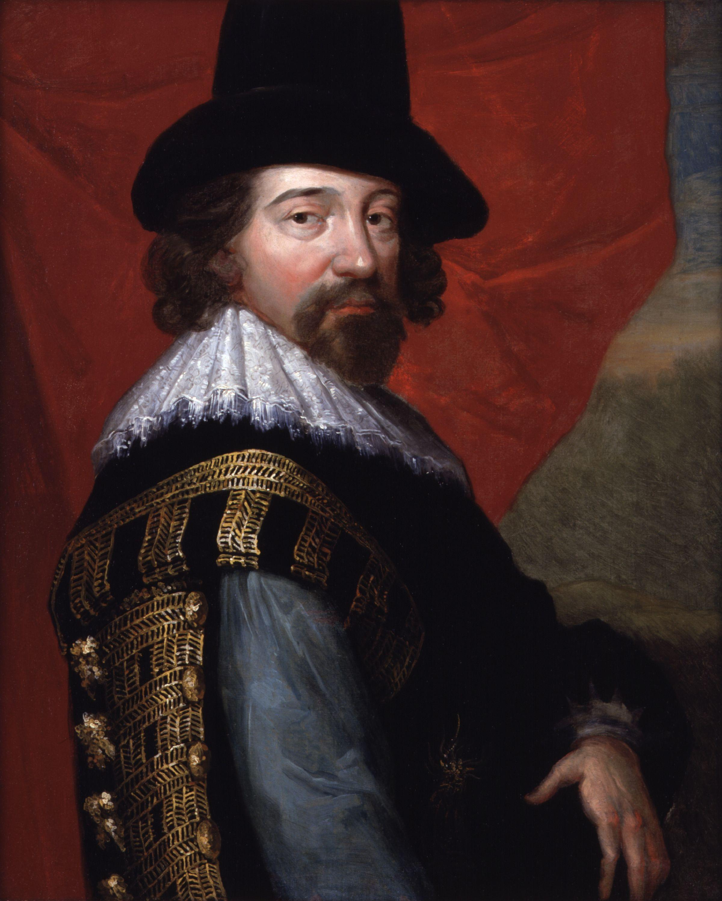 Francis Bacon, Viscount St Alban, by unknown artist. Portrait of Francis Bacon, Viscount St Alban, by John Vanderbank, 1731?, after a portrait by an unknown artist (circa 1618) All images in this batch have an unknown author, but there is strong evidence it was first published before 1923 (based mainly on the NPG's estimated date of the work).